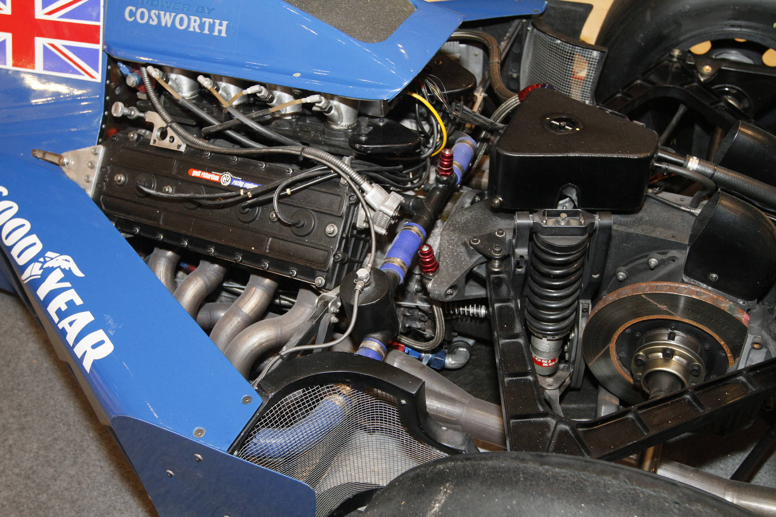 Pavilion Pit Stop 2010: Tyrrell 012/3